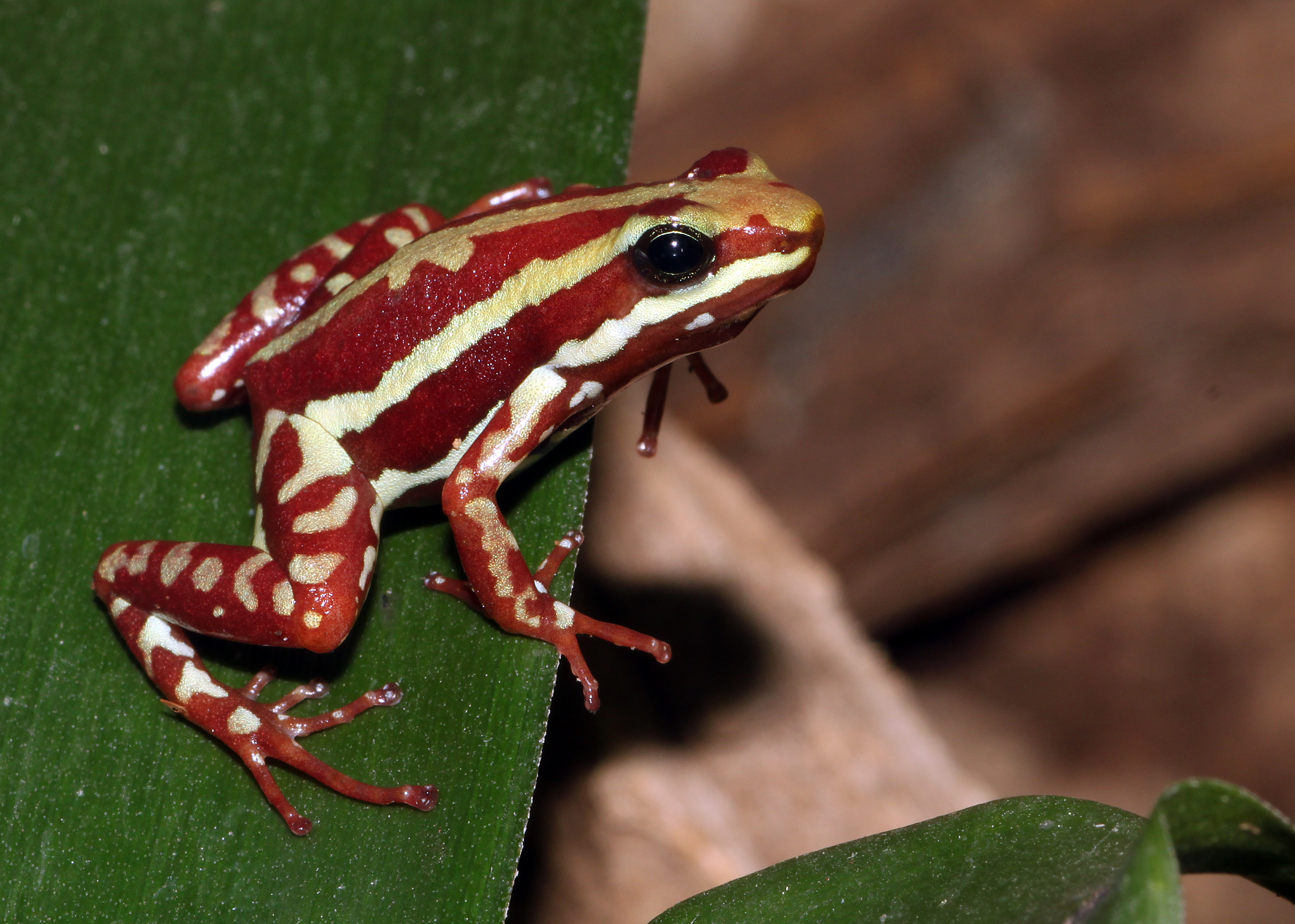 Phantasmal Poison Frog, Epipedobates anthonyi Syn.: Phyllobates anthonyi or Dendrobates anthonyi, Family: Dendrobatidae, Location: Germany, Ulm, Zoological Garden.